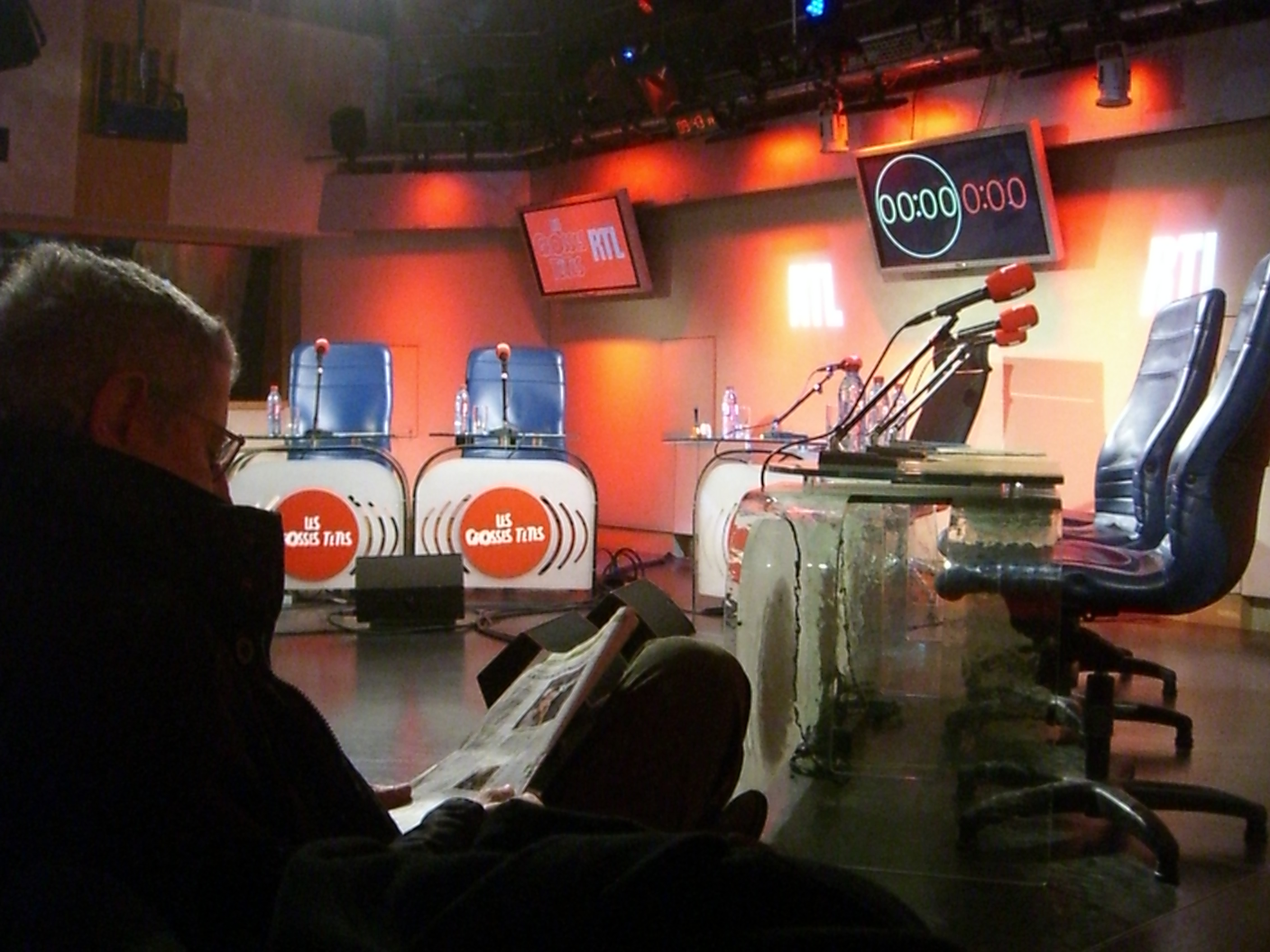 The plateau of the "Les Grosses Têtes" on RTL Philippe Bouvard.